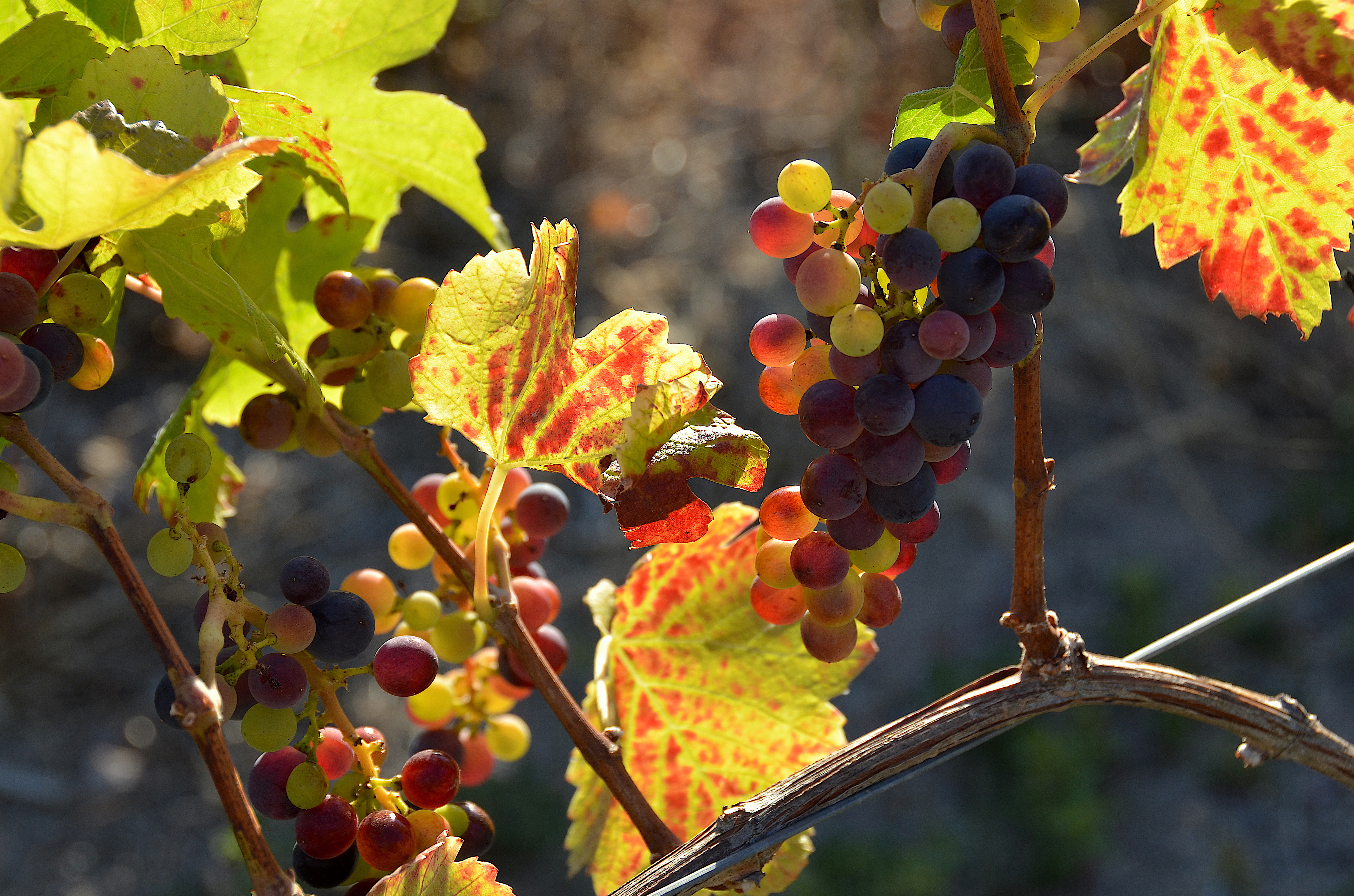 Grapevine at Farm Bo La Motte (Franschhoek)